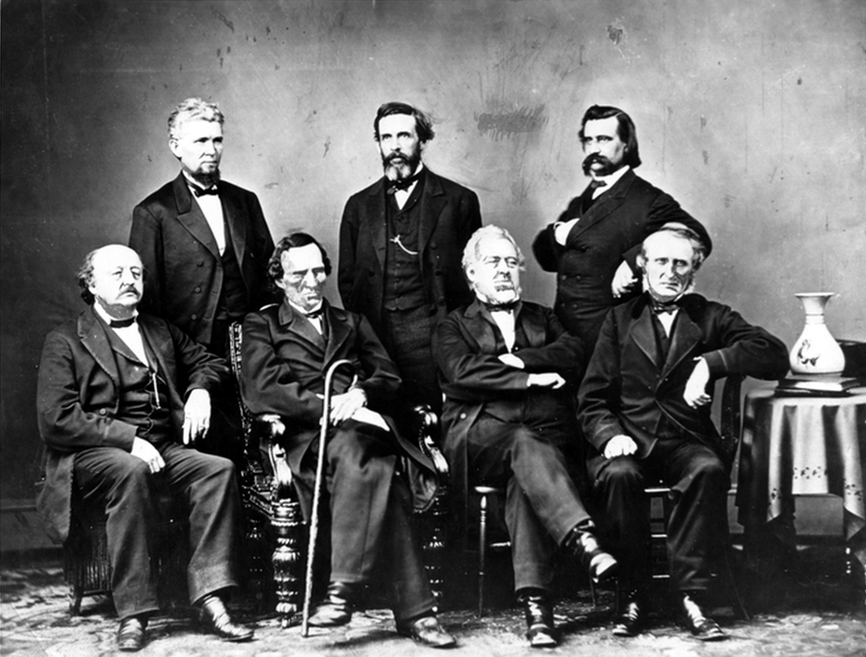 From a photograph by Brady in the United States Signal Corps, War Department, Washington. Left to right, Seated: Benjamin F. Butler, Thaddeus Stevens, Thomas Williams, John A. Bingham. Standing: James F. Wilson, George S. Boutwell, John A. Logan.